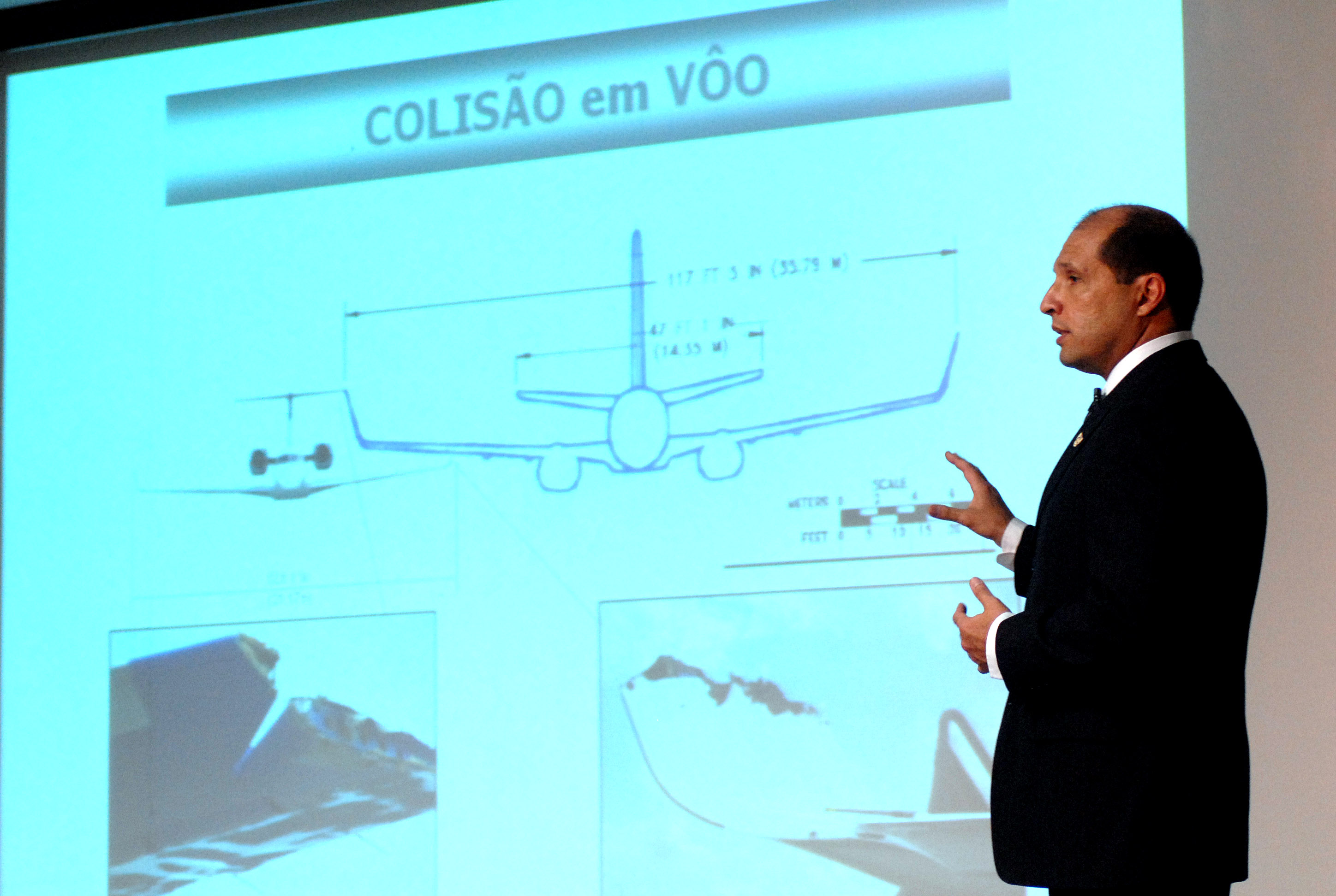 Colonel Rufino Antônio da Silva Ferreira, investigation committee president of the Brazilian National Civil Aviation Agency (ANAC), divulges the preliminary report on the Gol 1907 crash.